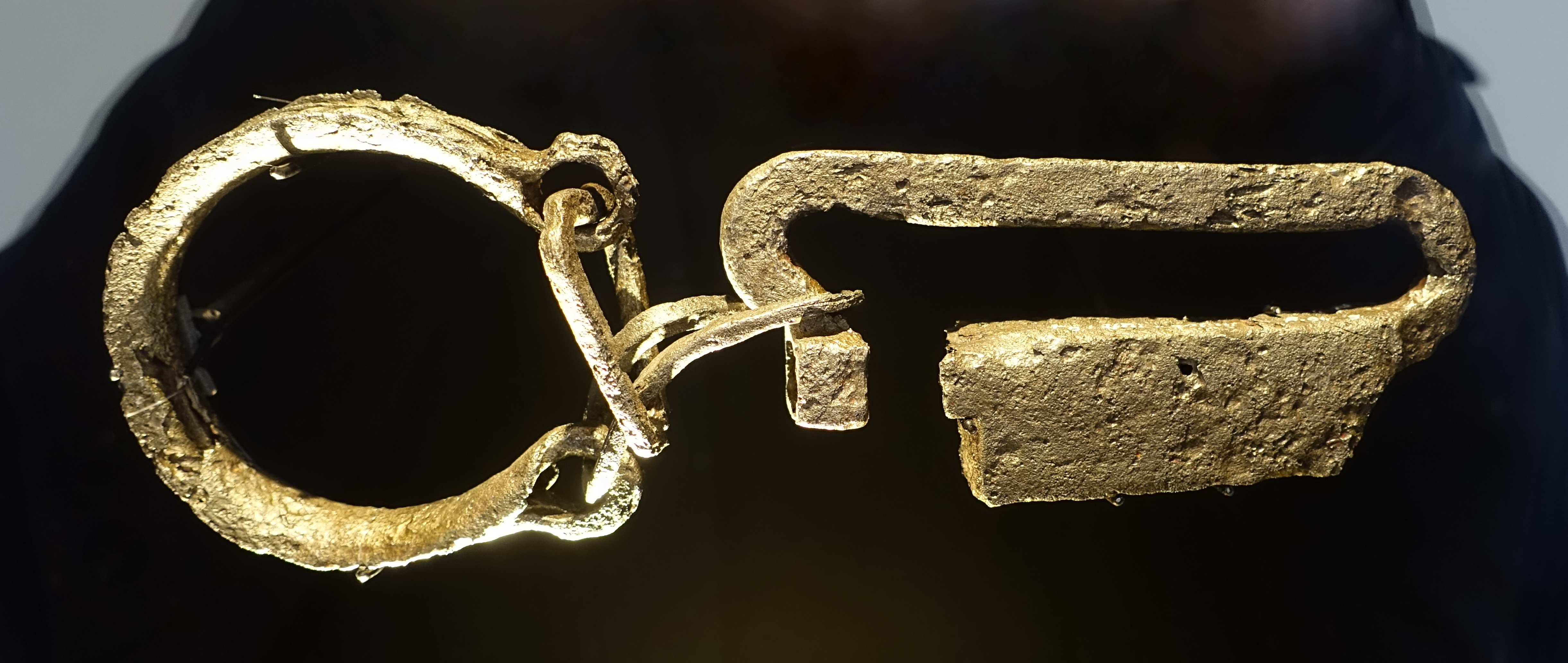 Ankle manacle for slave, Roman, 2nd to 3rd century AD - Landesmuseum Württemberg - Stuttgart, Germany.